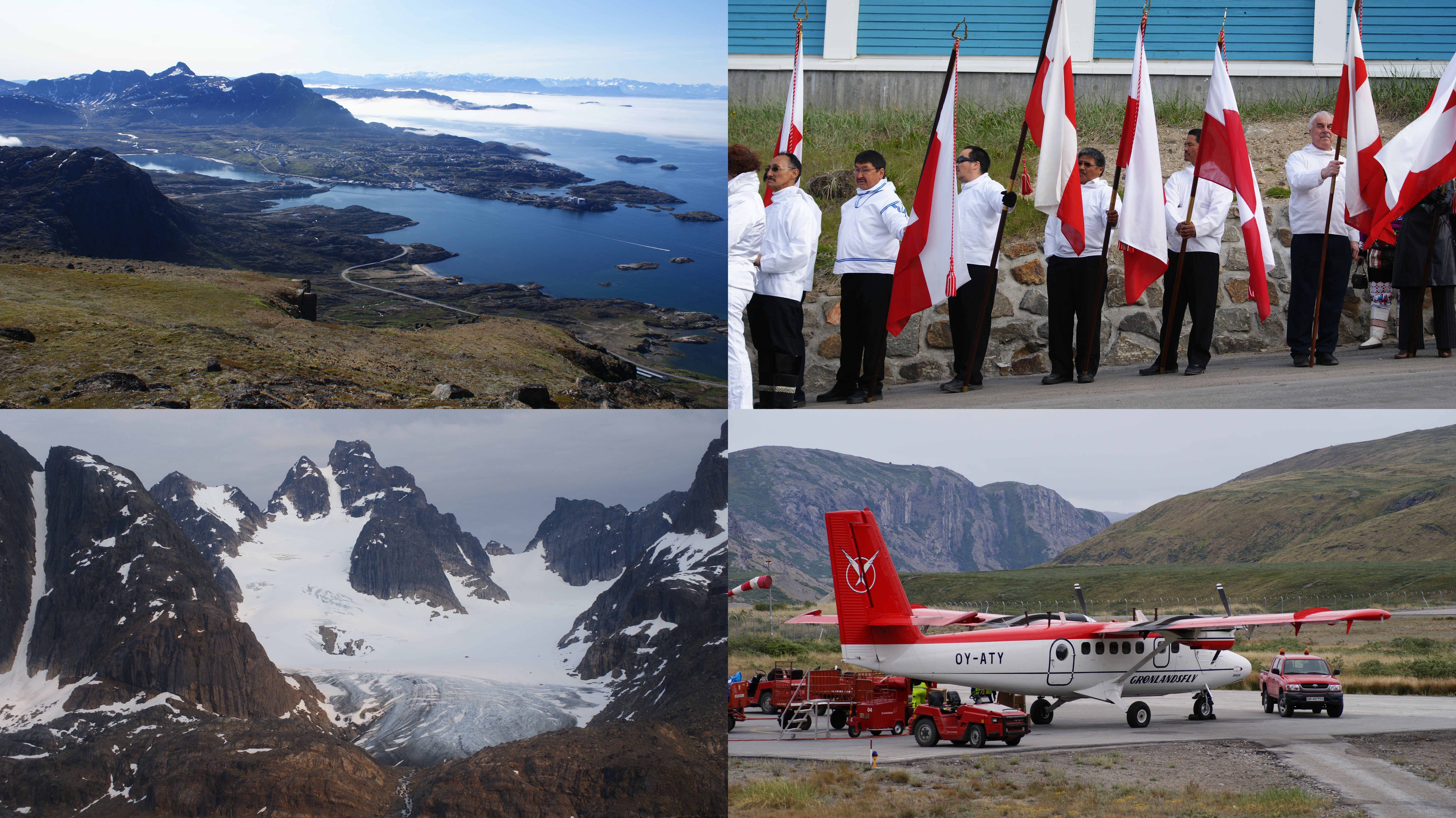 Montage of photographs from the Qeqqata Municipality, Greenland. top left: Davis Strait coastline top right: Celebrations of Greenland's National Day in Sisimiut bottom left: Sermersut Island bottom right: Kangerlussuaq Airport